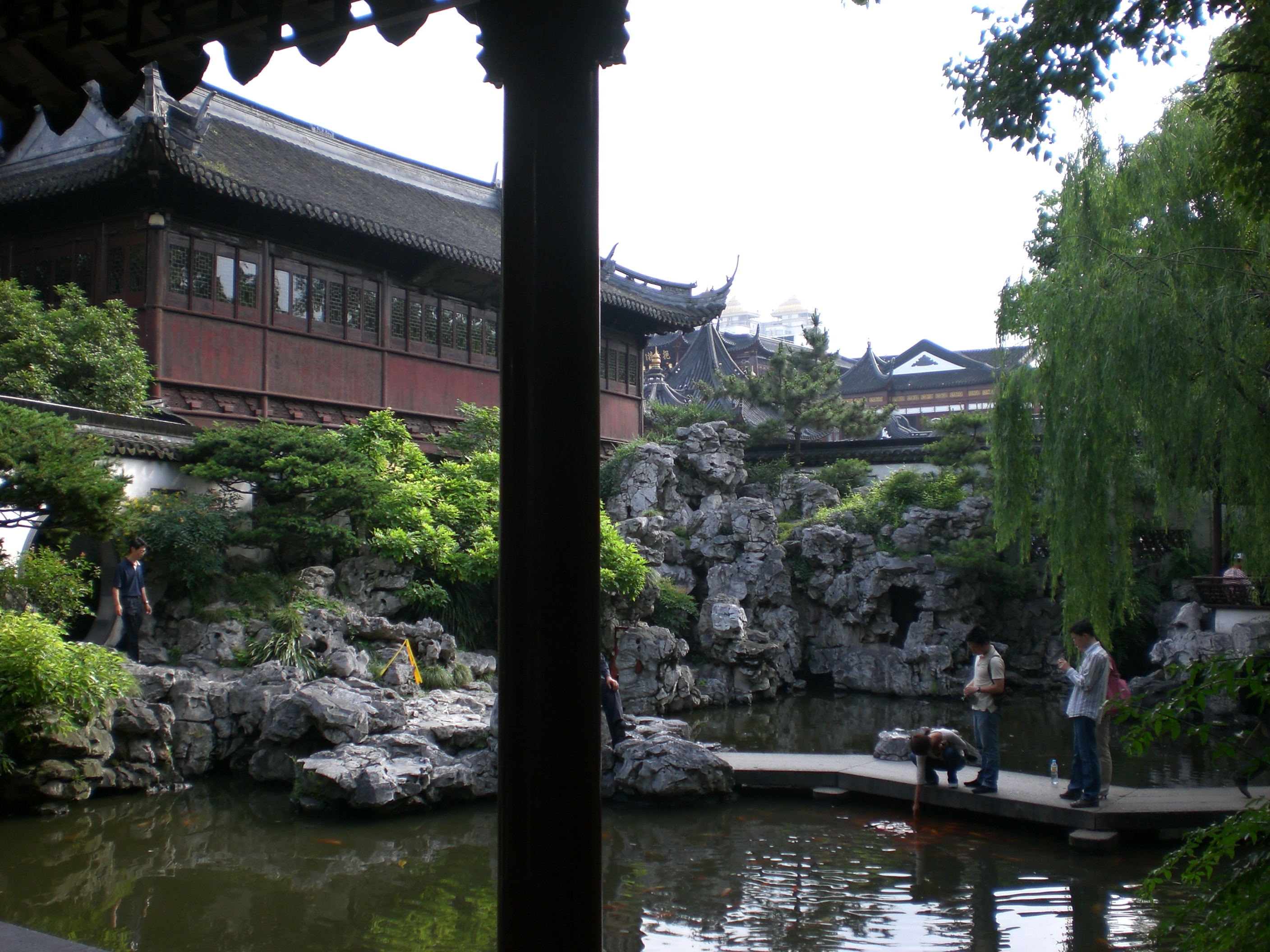 Shanghai, Yuyuan Garden, XVI Century